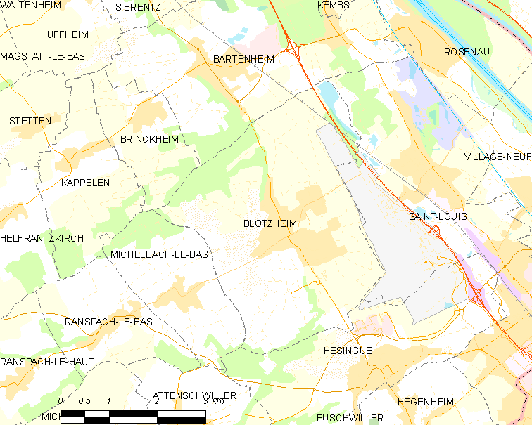 Map of French municipality